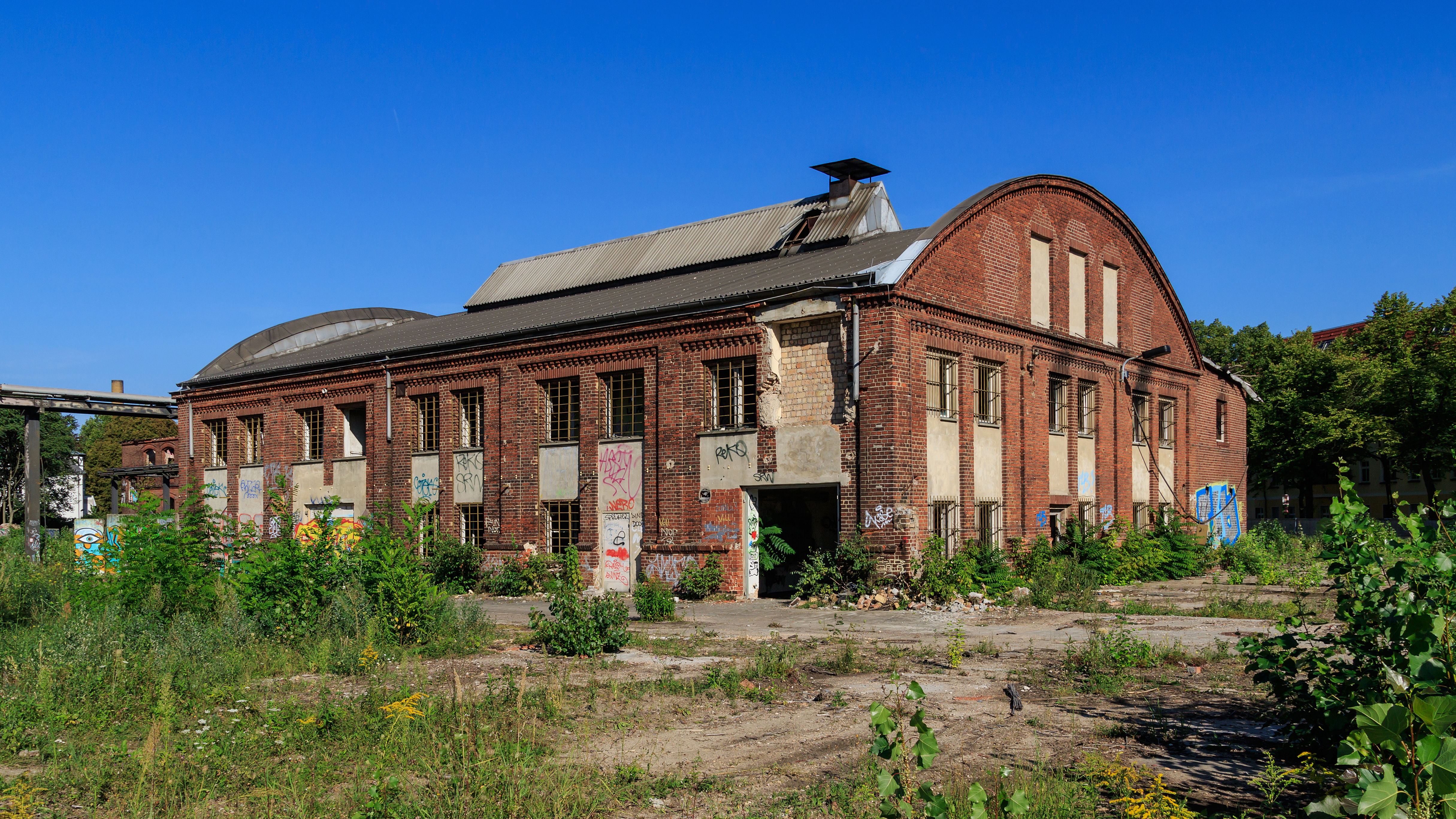 Ruins of former BMHW Niederschöneweide plant in Berlin (Germany)